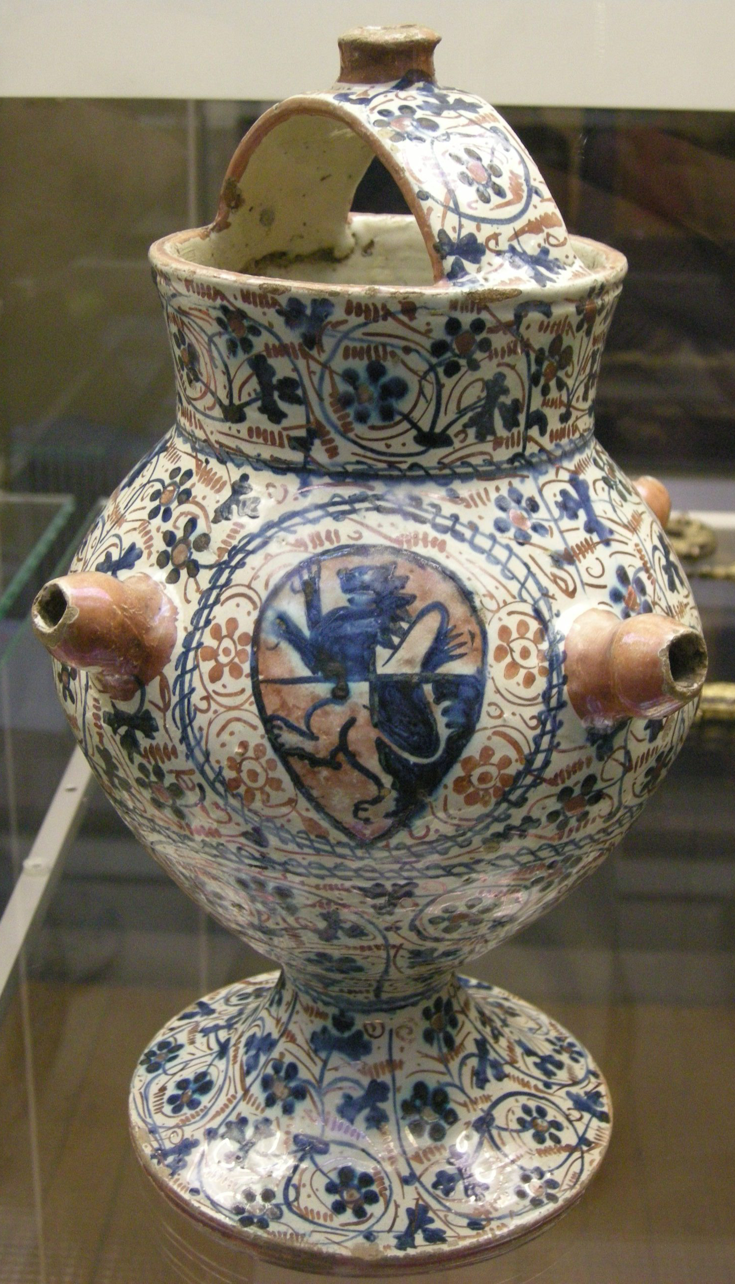 Jug of Cheater pottery. Manises faience (Spain).